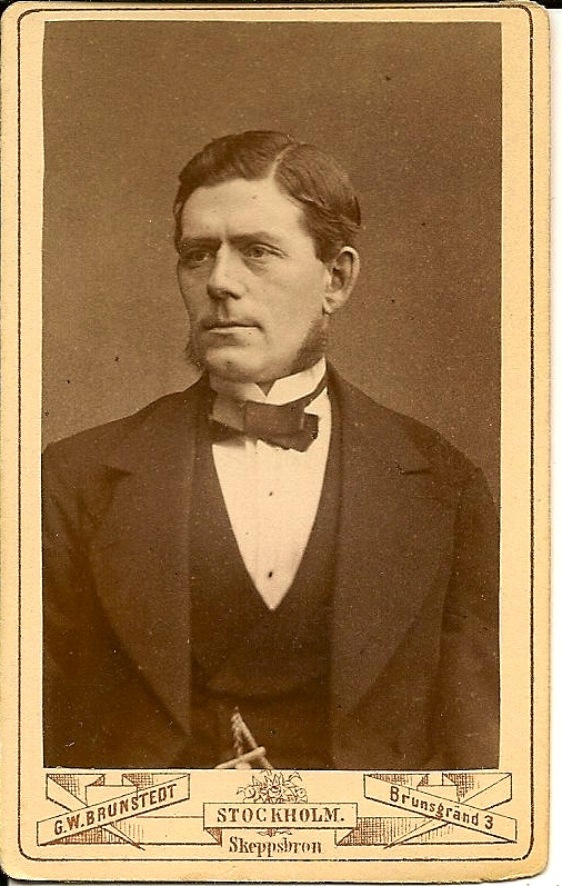 Swedish politician from late nineteenth century